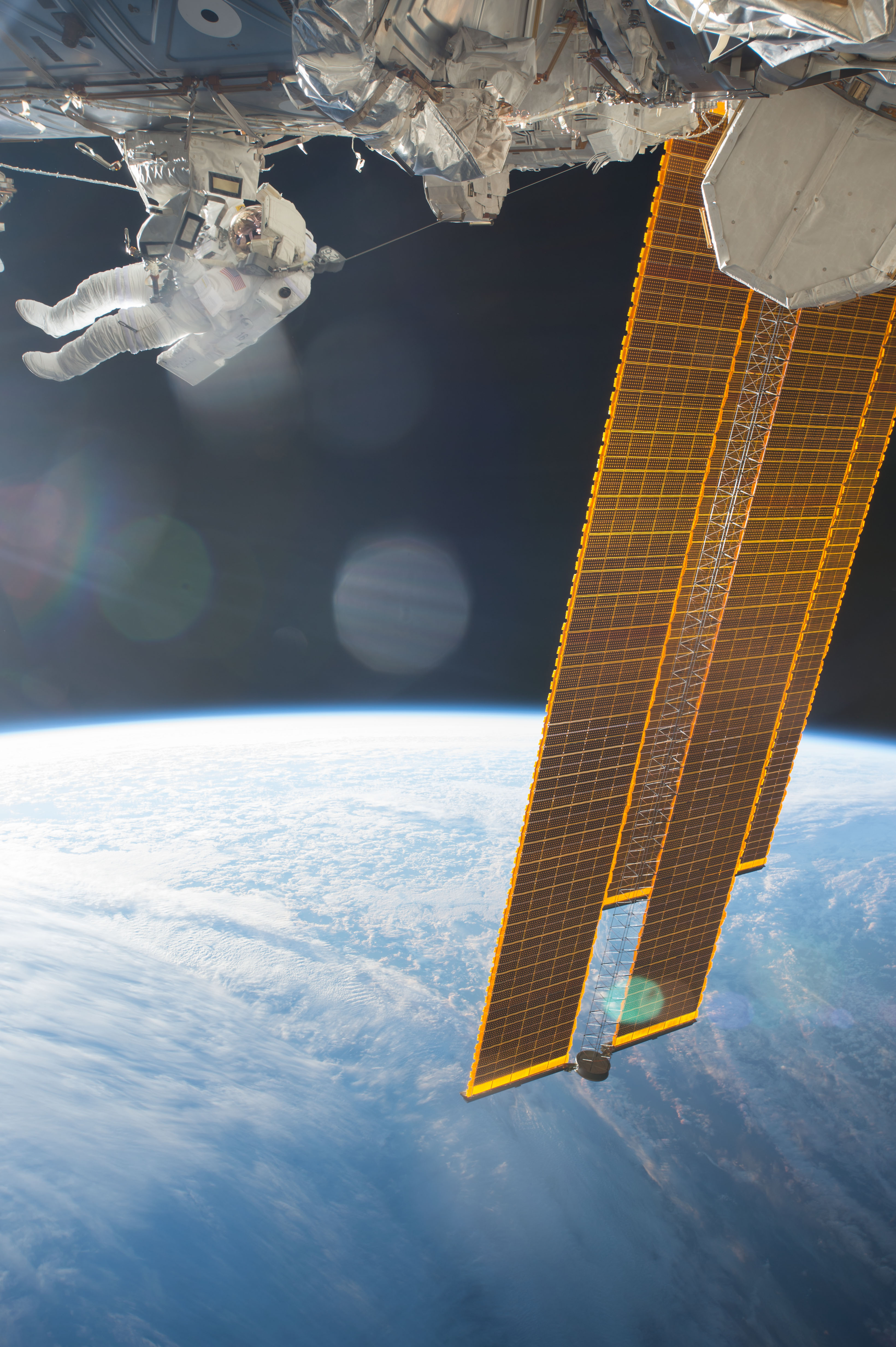 Expedition 48 Commander Jeff Williams and Flight Engineer Kate Rubins (pictured) of NASA conducted a five-hour and 58-minute spacewalk on Aug. 19, 2016. The pair installed the first of two international docking adapters (IDAs) that will be used for the future arrivals of Boeing and SpaceX commercial crew spacecraft in development under NASA’s Commercial Crew Program. Commercial crew flights from Florida’s Space Coast to the International Space Station will restore America’s human launch capability and increase the time U.S. crews can dedicate to scientific research, which is helping prepare astronauts for deep space missions, including the journey to Mars.